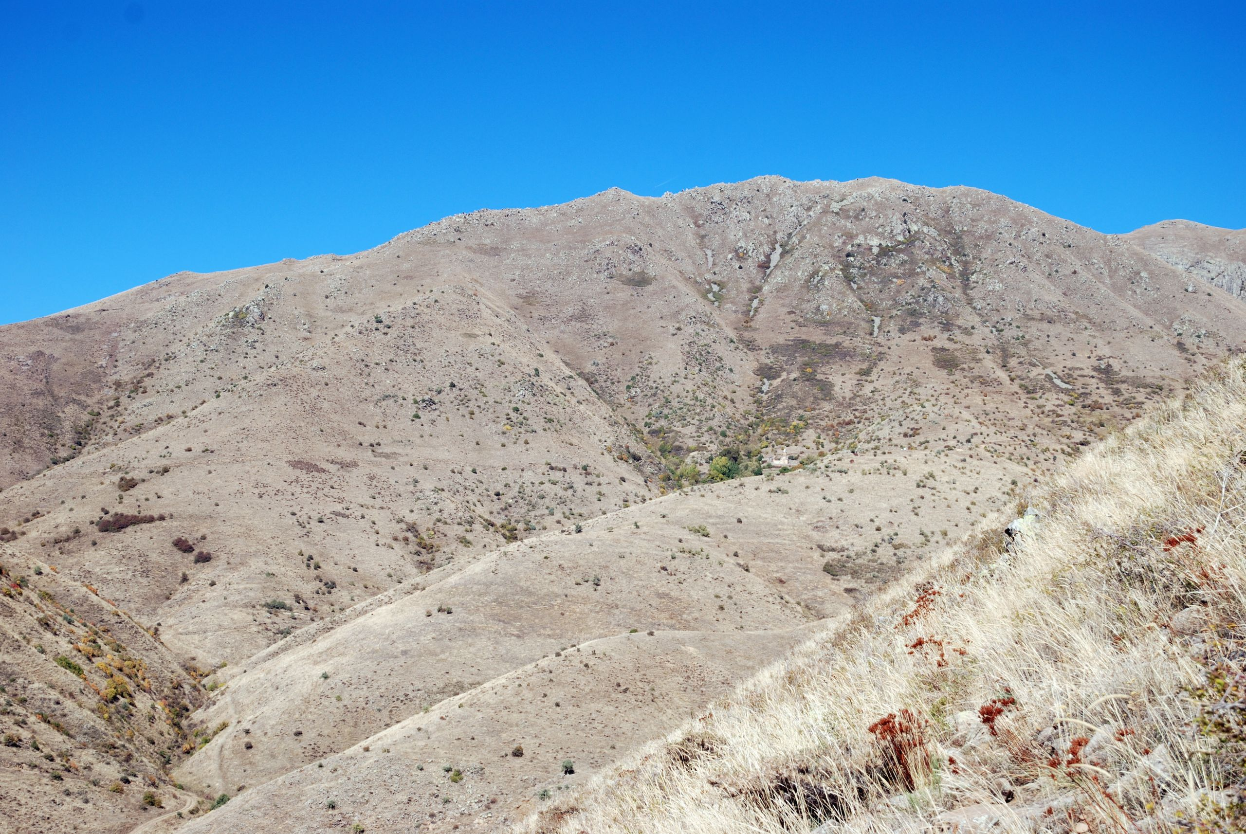 Spitakavor from south